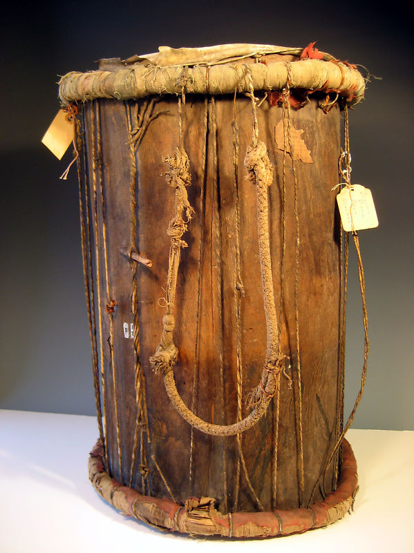 This is a 19th Century royal war drum of the Serer people from the Kingdom of Sine. It is called Jung-Jung in the Serer-Sine language. It was played when the Serer warriors and kings were going to the battlefield.